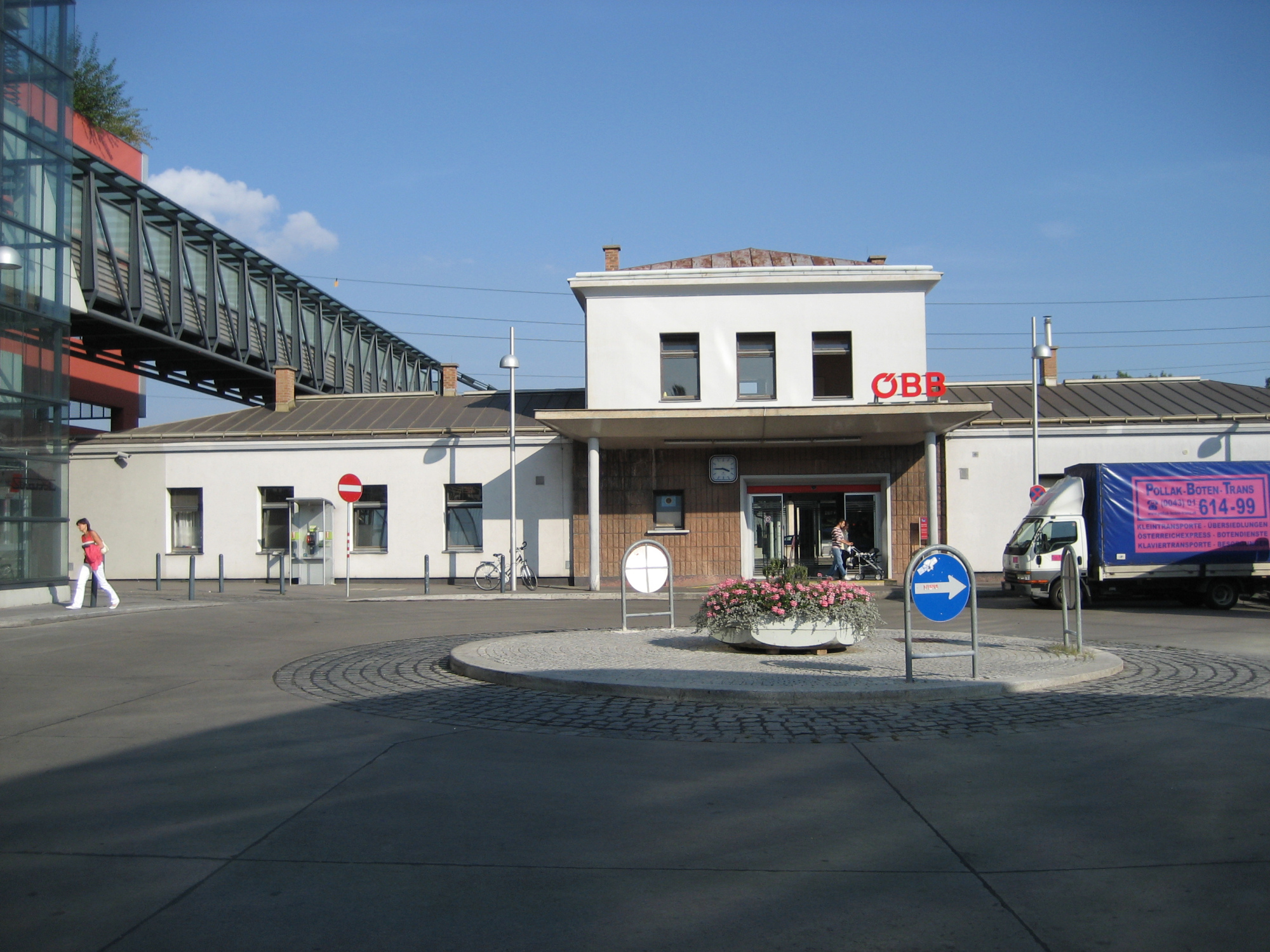 Wien Liesing train station in Vienna